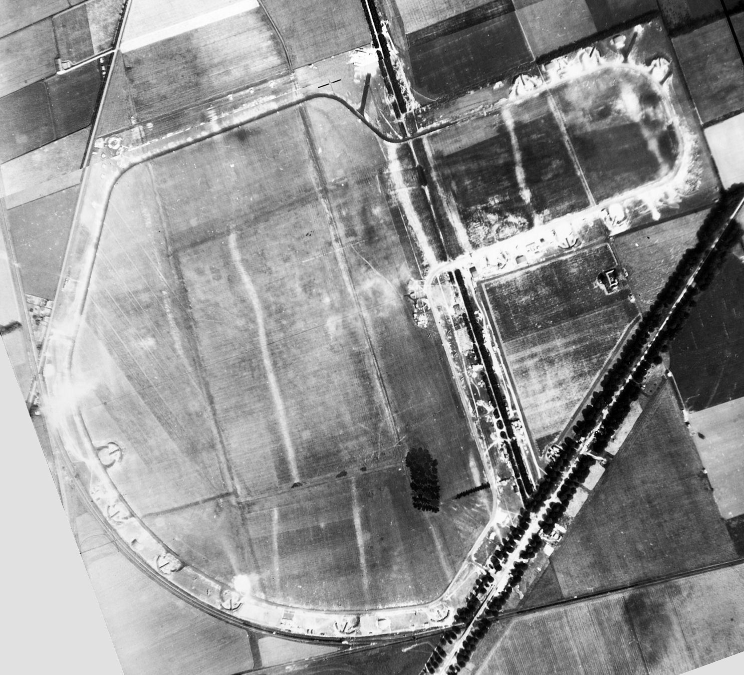 Aerial photograph of Snailwell airfield, 26 July 1942. Photograph taken by No. 8 Operations Training Unit, sortie number RAF/FNO/67. English Heritage (RAF Photography).